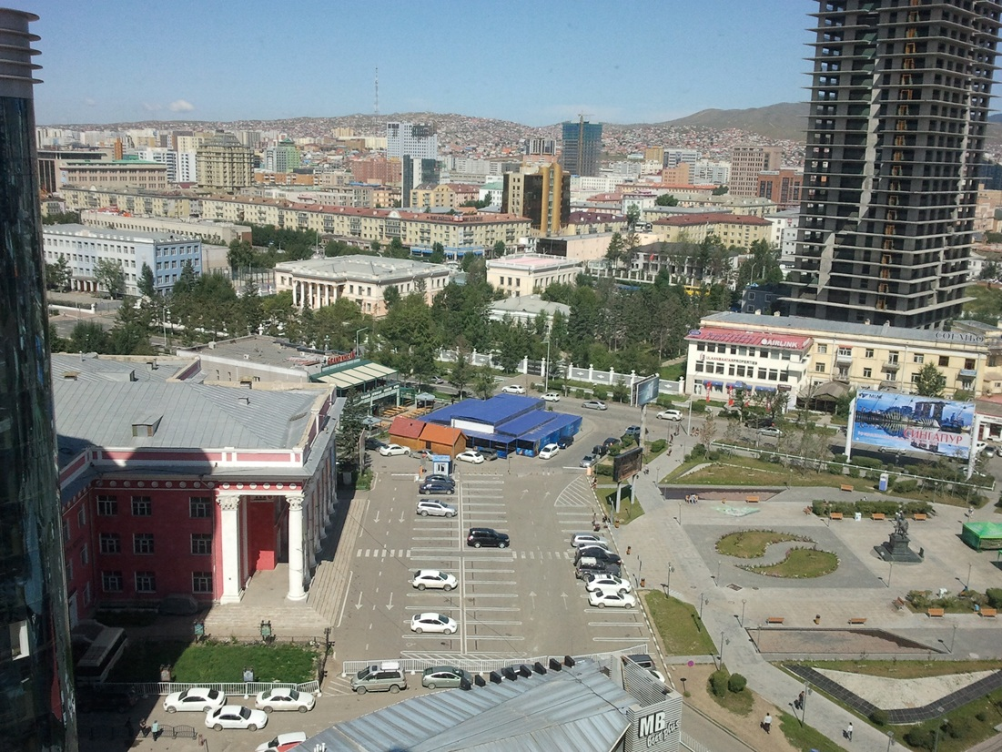 Ulaanbaatar looking north west. Choibalsan's residence with colonnade. Red drama theatre. Light blue secondary school No.1 founded in 1923.